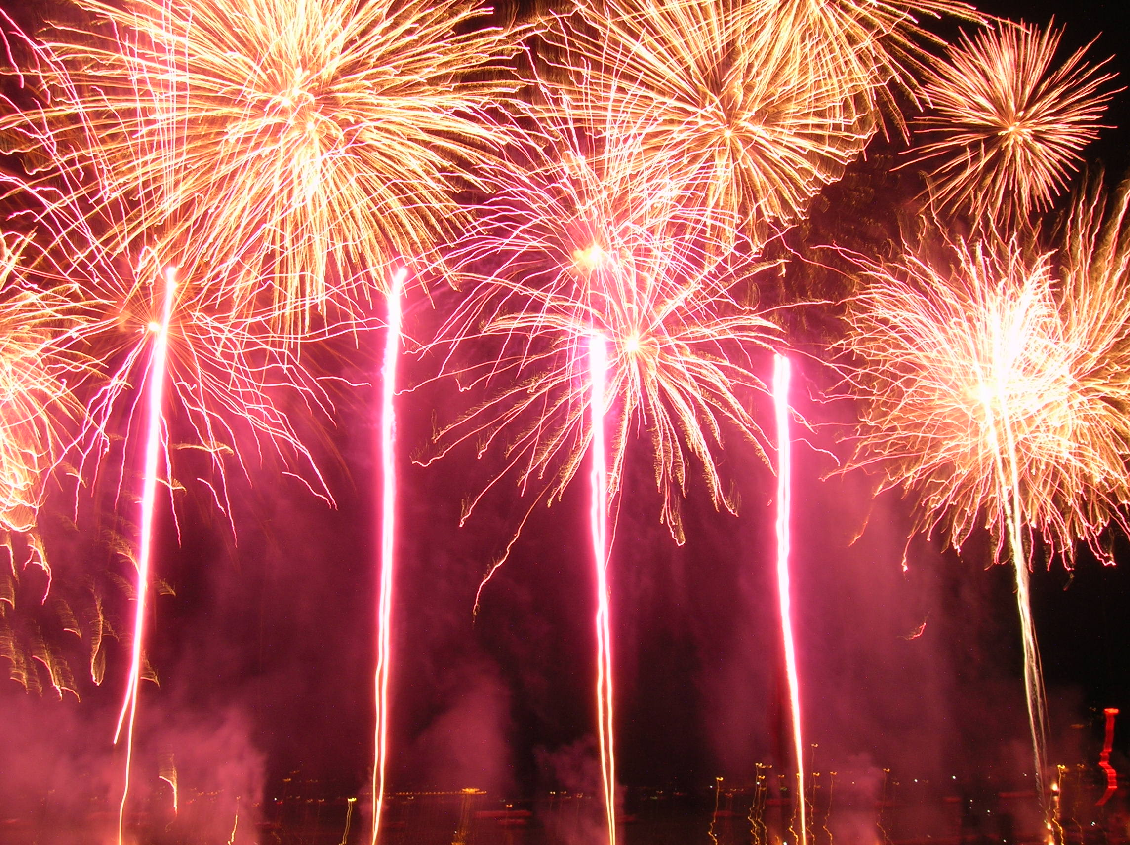 Firework of Lake of Annecy festival 2005